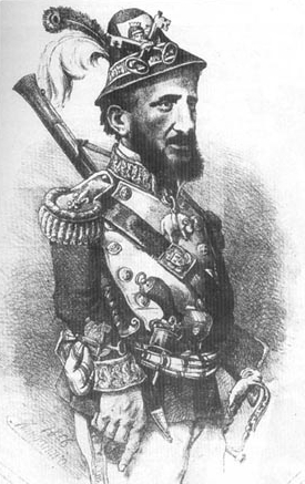 Brigante Franceschiello